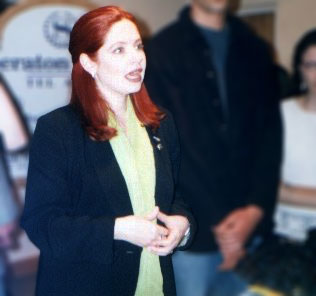 Andrea del Boca, the Argentinian TV actress, visiting Israel in 1999